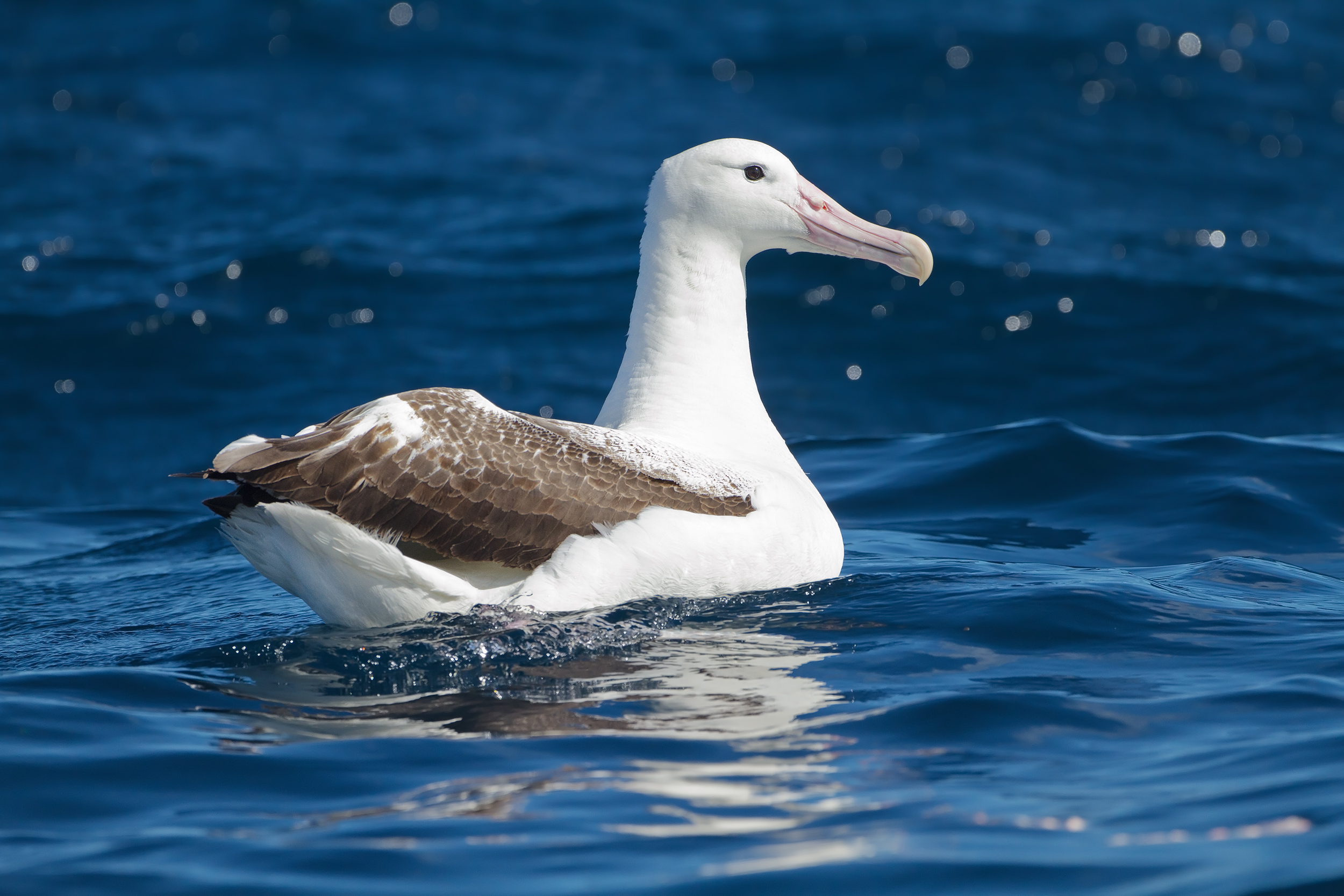 Southern Royal Albatross (Diomedea epomophora), East of the Tasman Peninsula, Tasmania, Australia